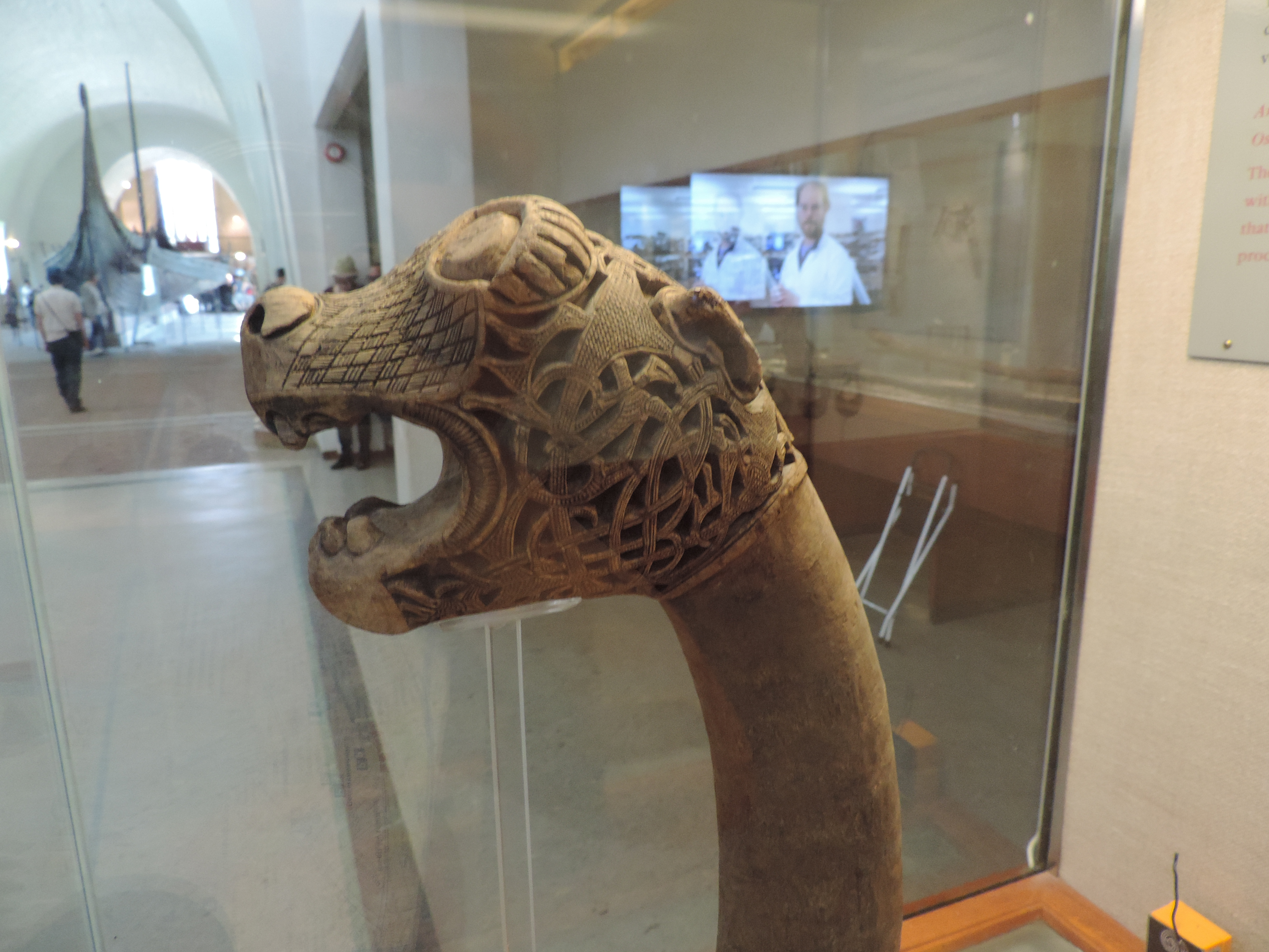 One of the four wood carved animal heads in the Viking Ship Museum (Oslo)